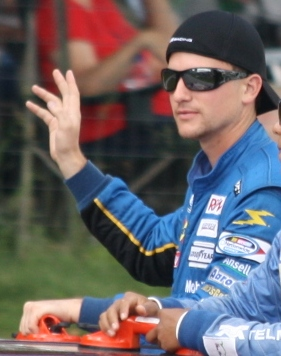 NASCAR driver Robb Bent during driver introductions at the 2010 Bucyros 200 the first Nationwide Series race at Road America.